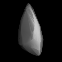 3D convex shape model of 1364 Safara, computed using light curve inversion techniques. J. Hanuš, J. Ďurech, M. Brož, B. D. Warner (June 2011). "A study of asteroid pole-latitude distribution based on an extended set of shape models derived by the lightcurve inversion method". Astronomy and Astrophysics 530: A134. ISSN 0004-6361. arXiv